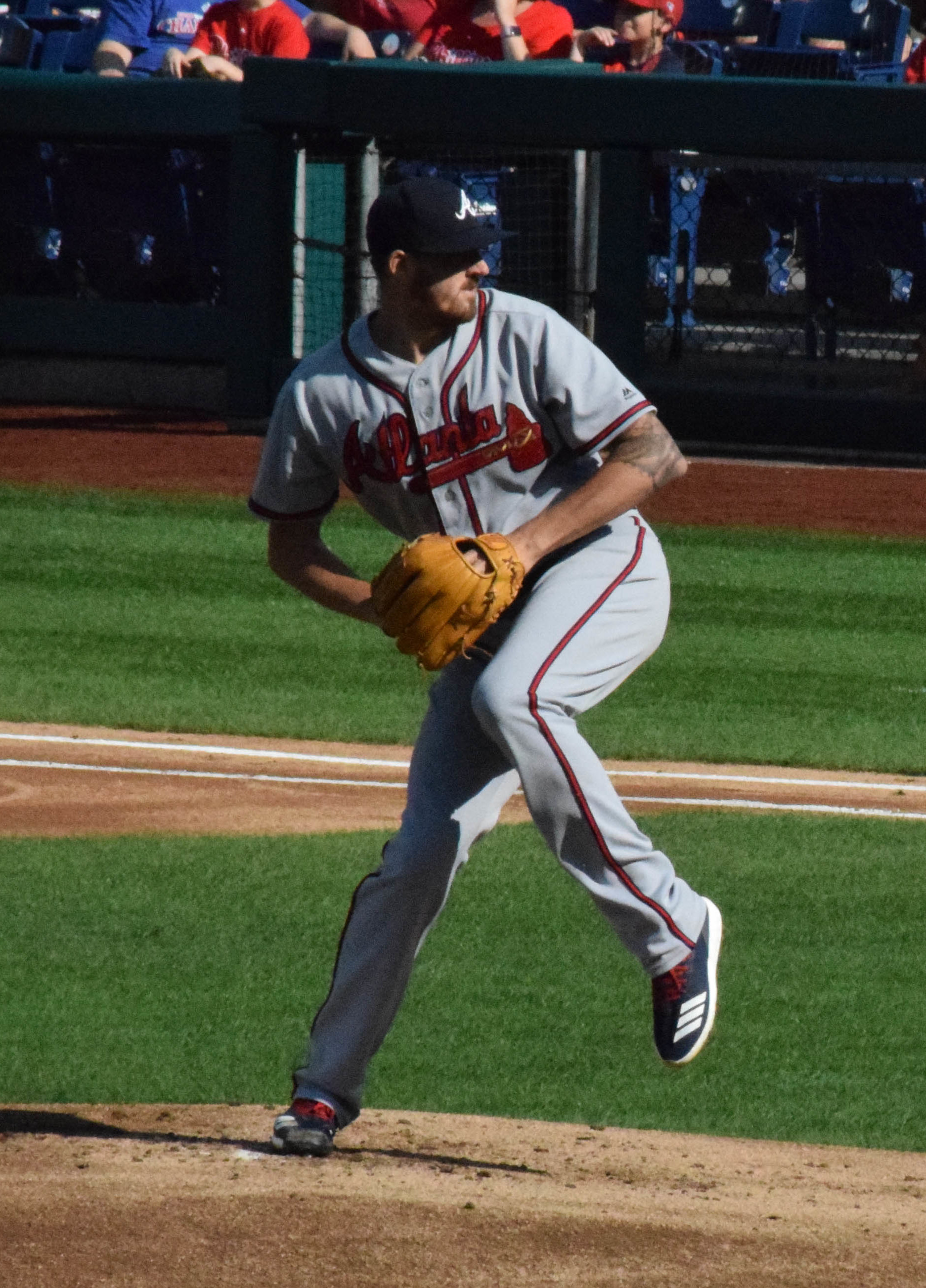 Kevin Gausman pitching for the Atlanta Braves against the Philadelphia Philles on September 30, 2018.